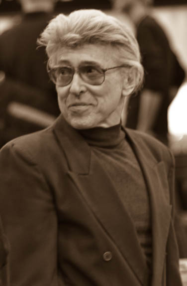 Comic book creator Jim Steranko at the New York Comic Con, February 2009